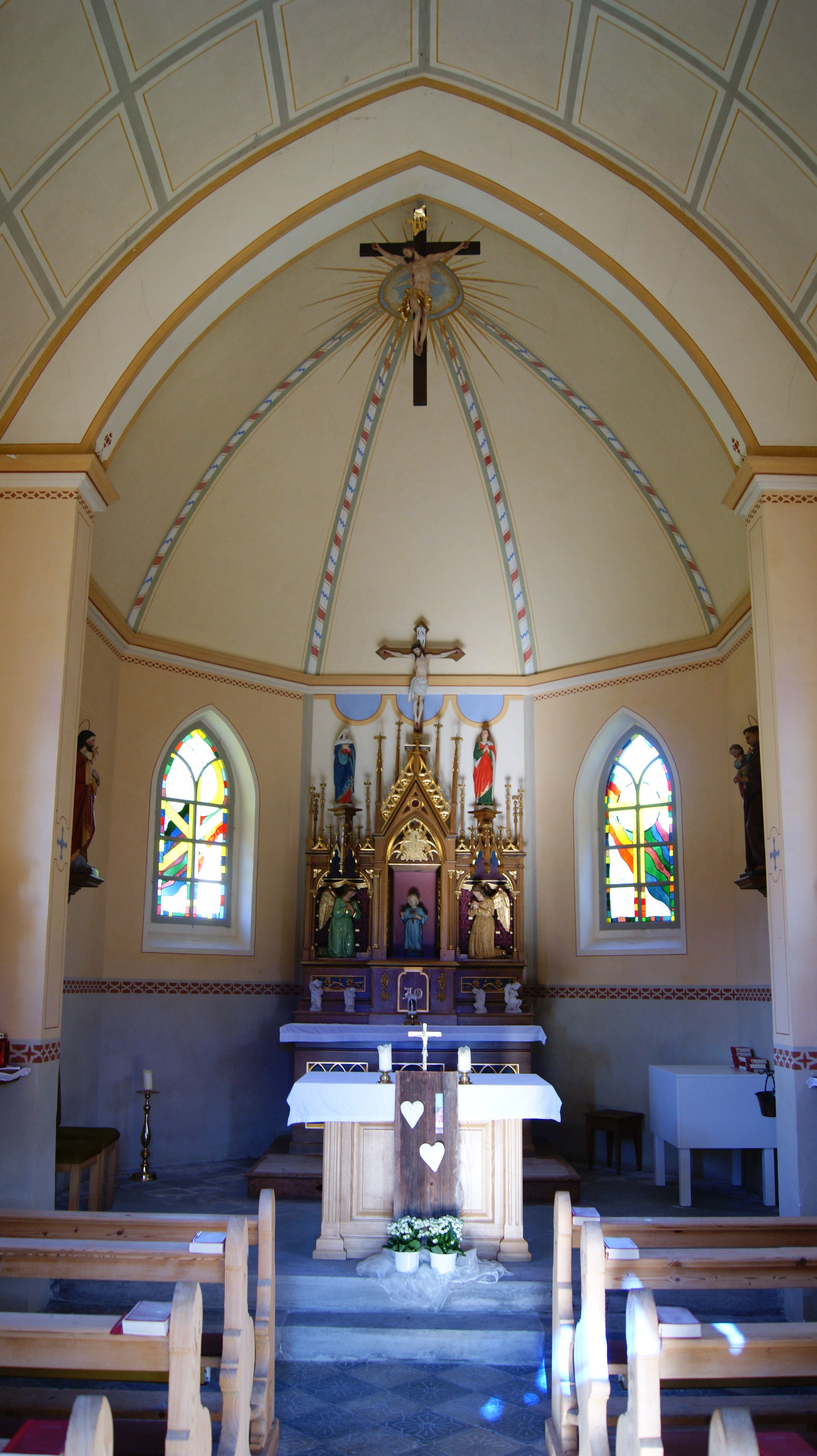 Chapel St. Michael in Farnach, municipality Bildstein, Vorarlberg, Austria. Altar.